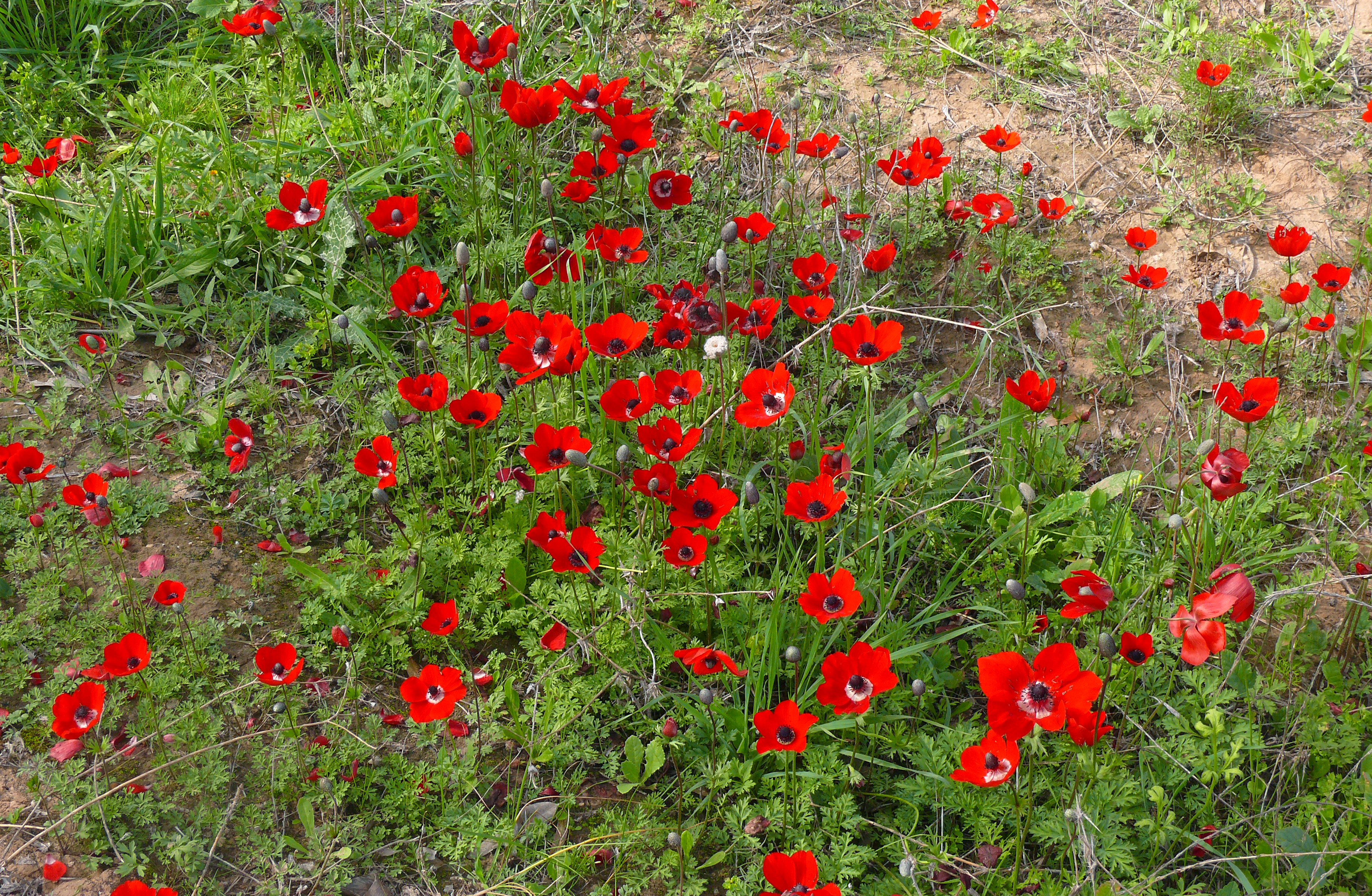 Anemone coronaria near Shokeda, Israel